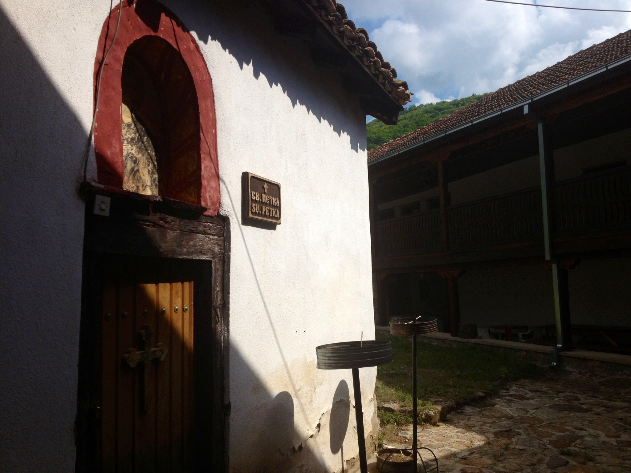 The Monastery of St Petka in Brajčino, Resen, Macedonia